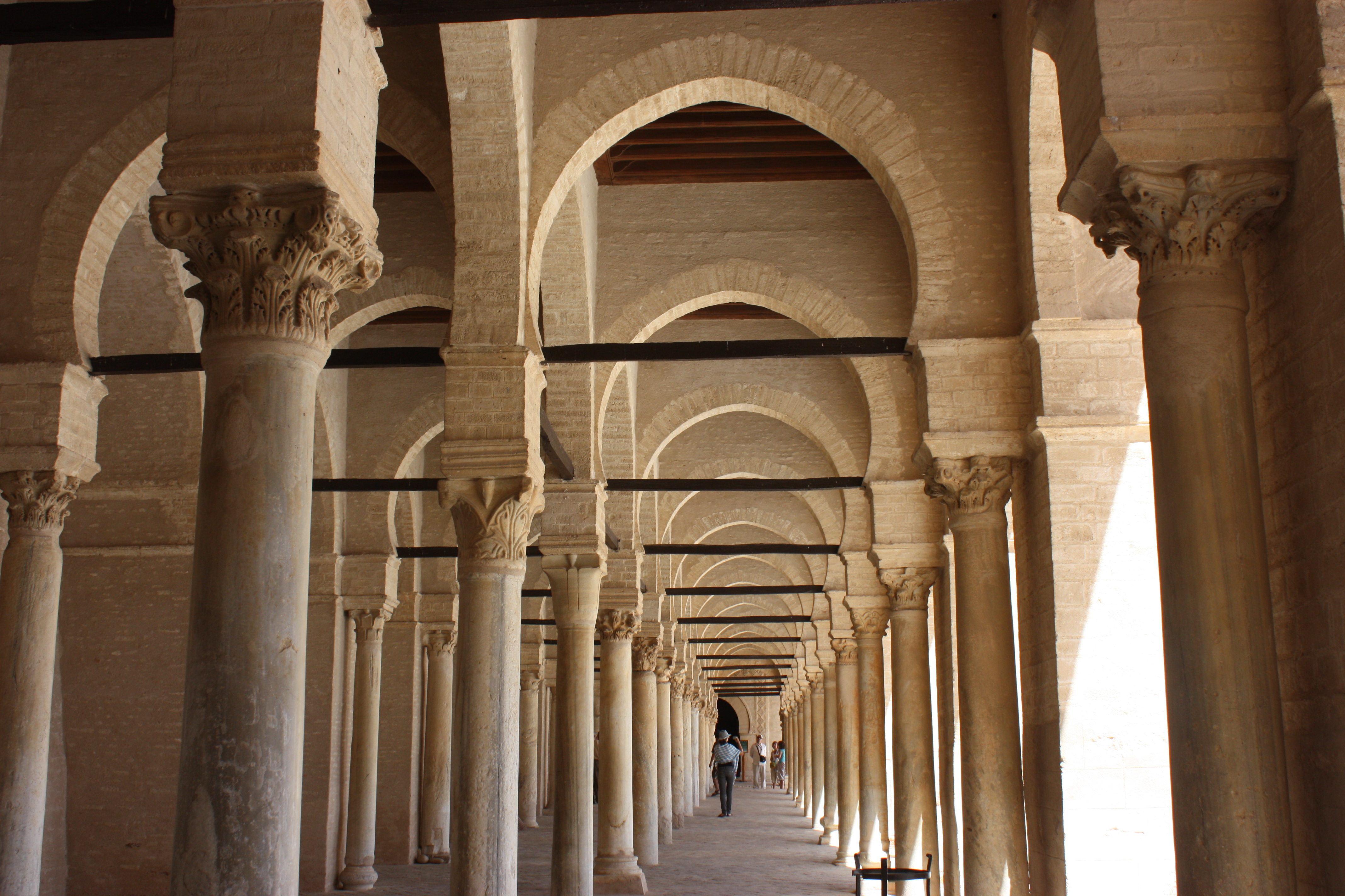 Interior view of the western portico of the courtyard of the Great Mosque of Kairouan, in Tunisia.